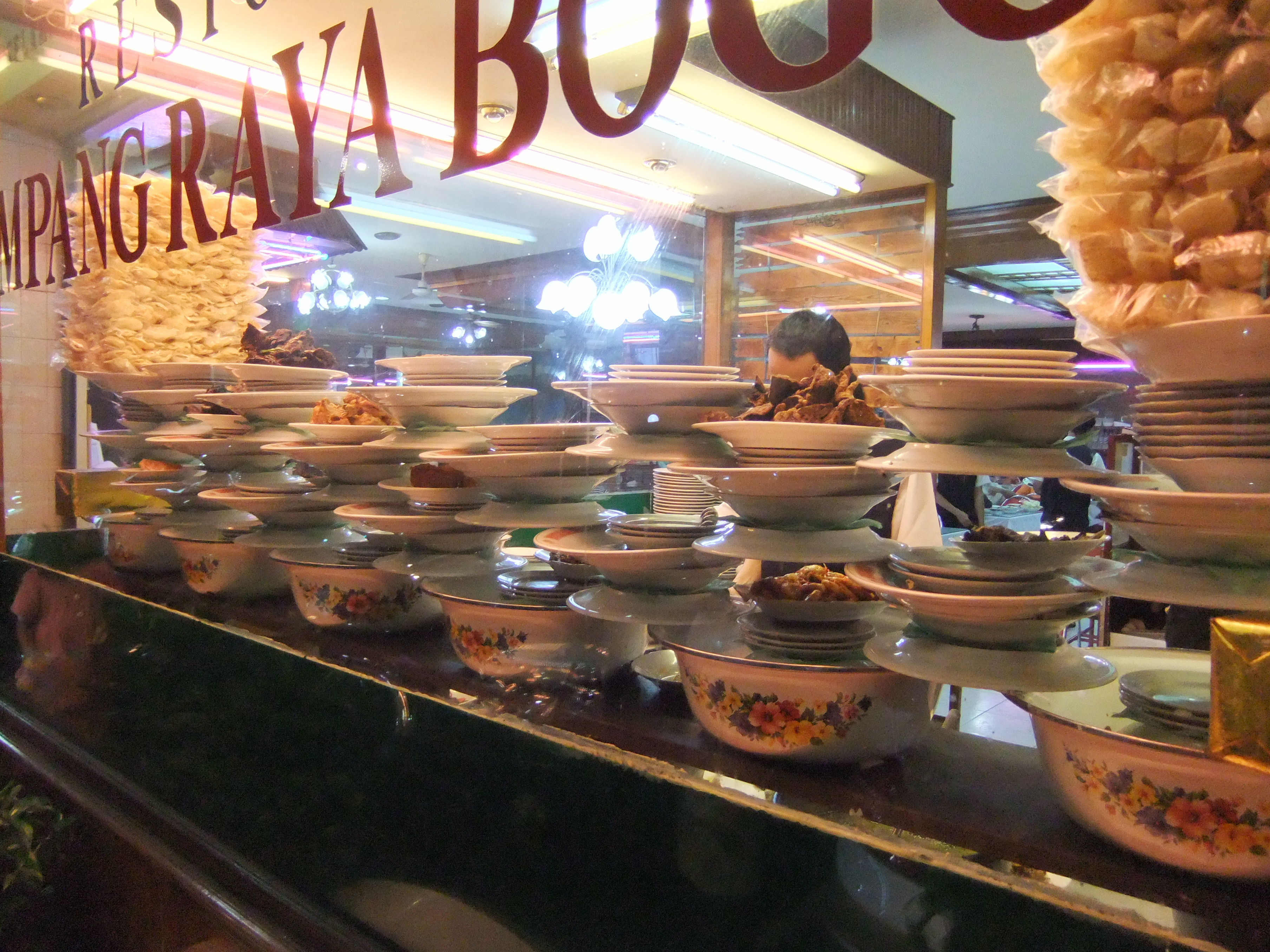 Padang Restaurant, Bogor, Indonesia